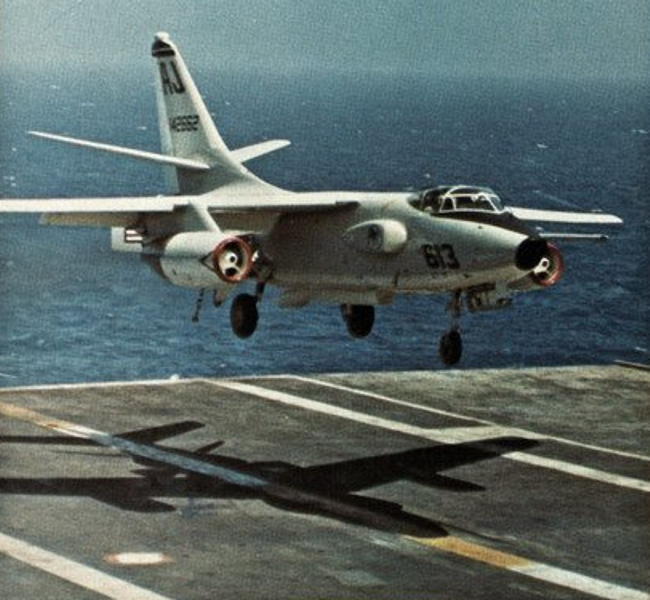 A U.S. Navy Douglas EKA-3B Skywarrior (BuNo 142662) from Tactical Electronic Warfare Squadron 135 (VAQ-135) Det.2 "Black Ravens" is landing aboard the aircraft carrier USS America (CVA-66). VAQ-135 Det.2 was assigned to Carrier Air Wing 8 (CVW-8) aboard the America for a deployment to the Mediterranean Sea from 6 July to 16 December 1971.